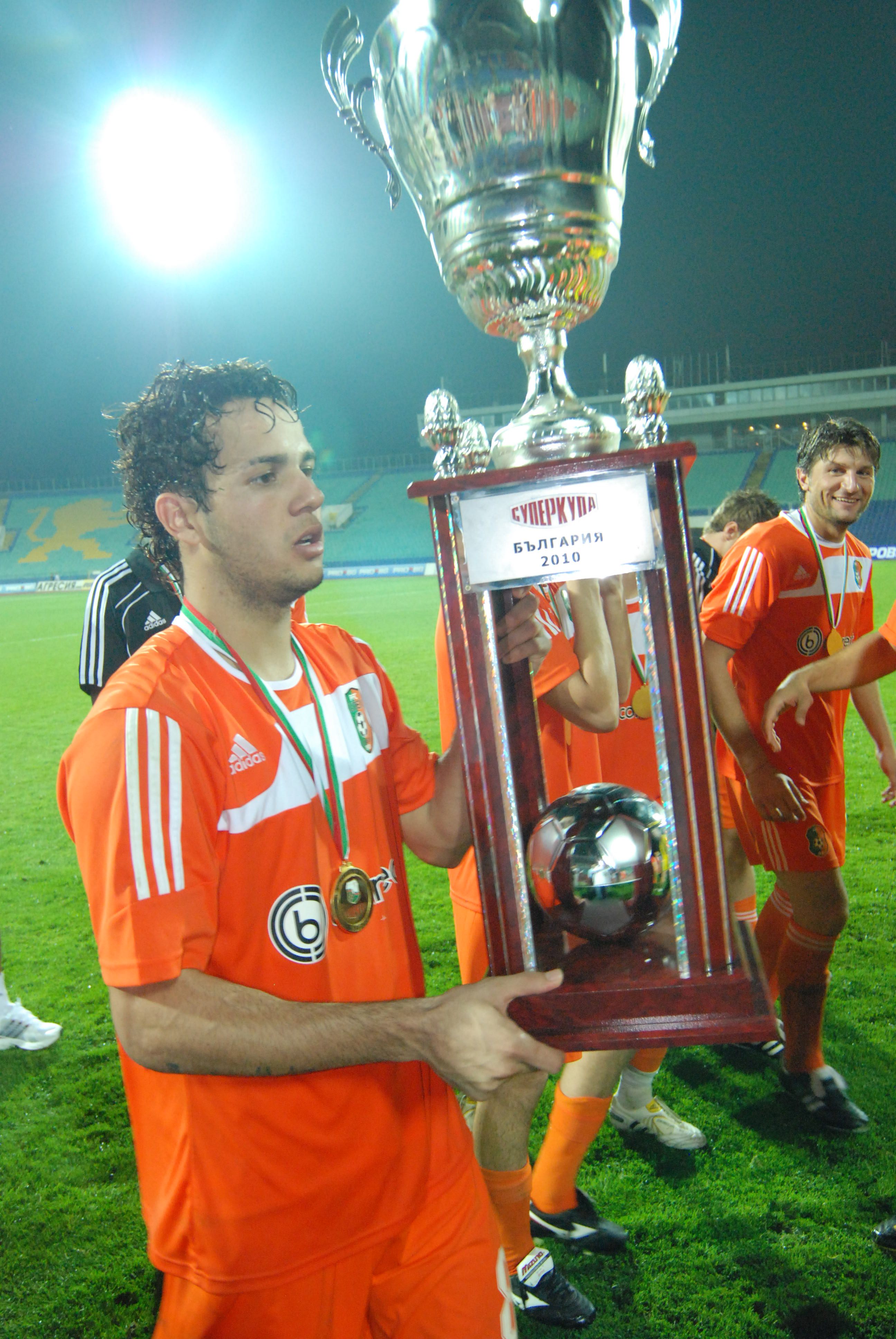 Wellington da Silva-Tom